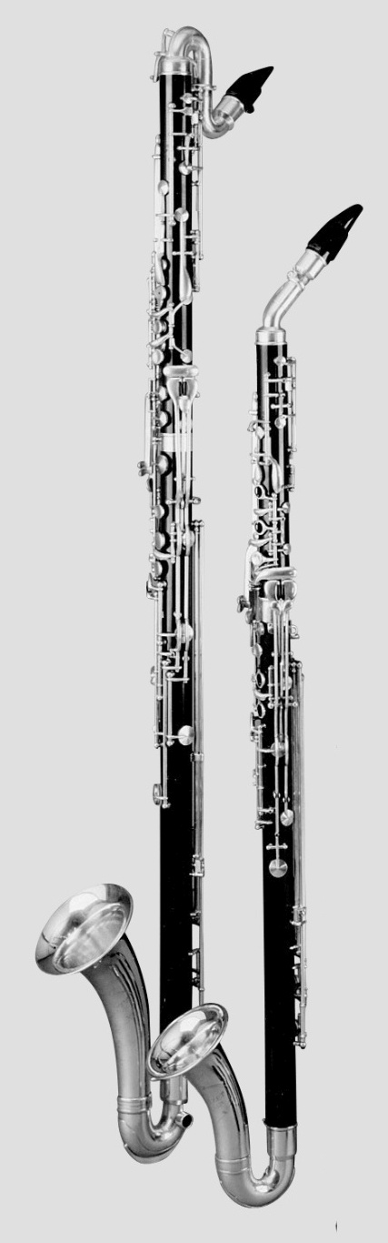 Bass clarinet with basset horn